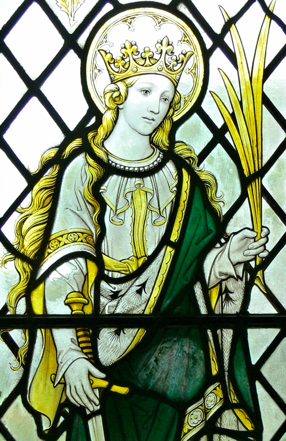 Cropped version of File:Saint Non's Chapel - Fenster 1 St.Winifred.jpg by Wolfgang Sauber